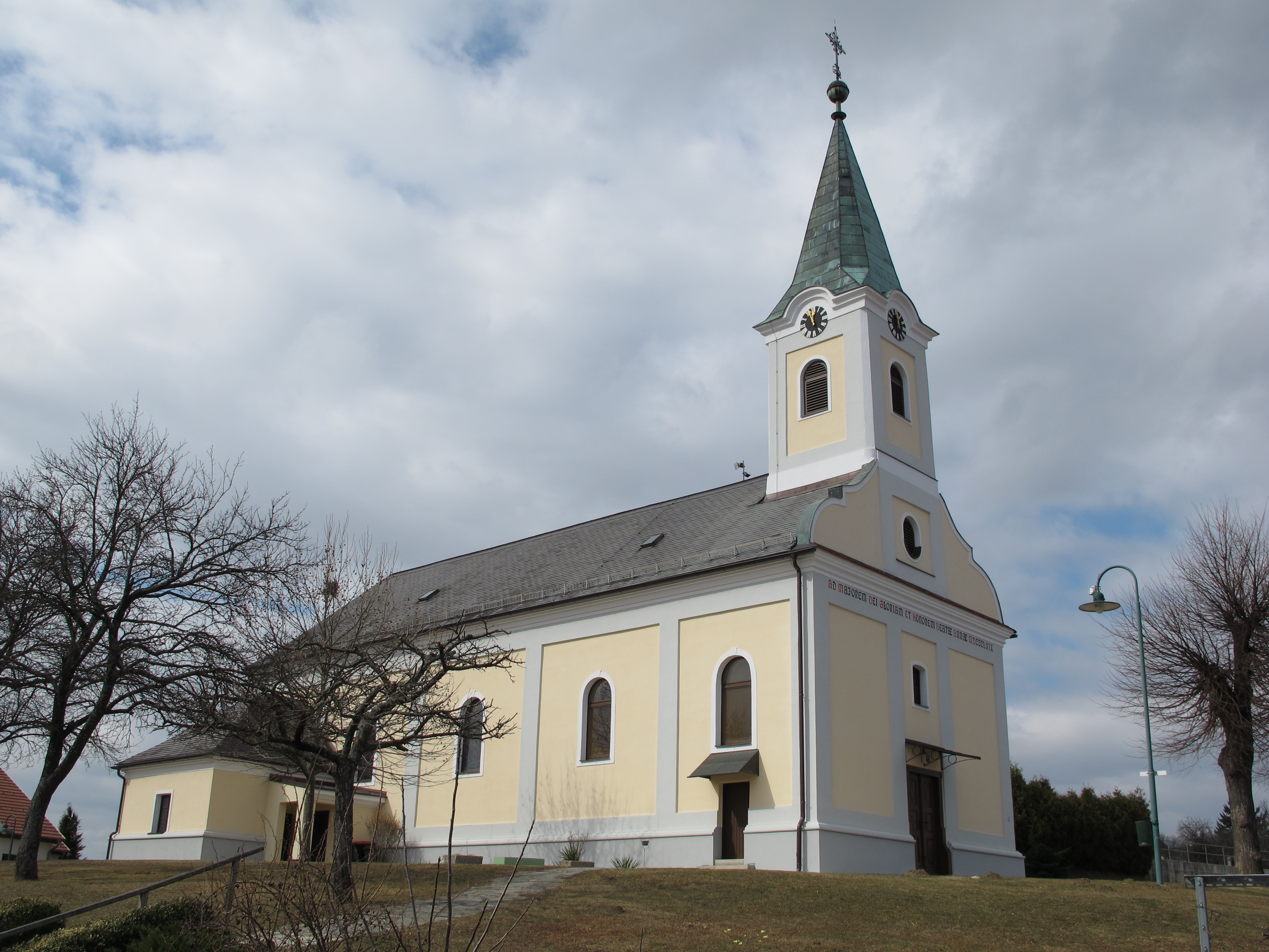 Pfarrkirche Oberdorf im Burgenland